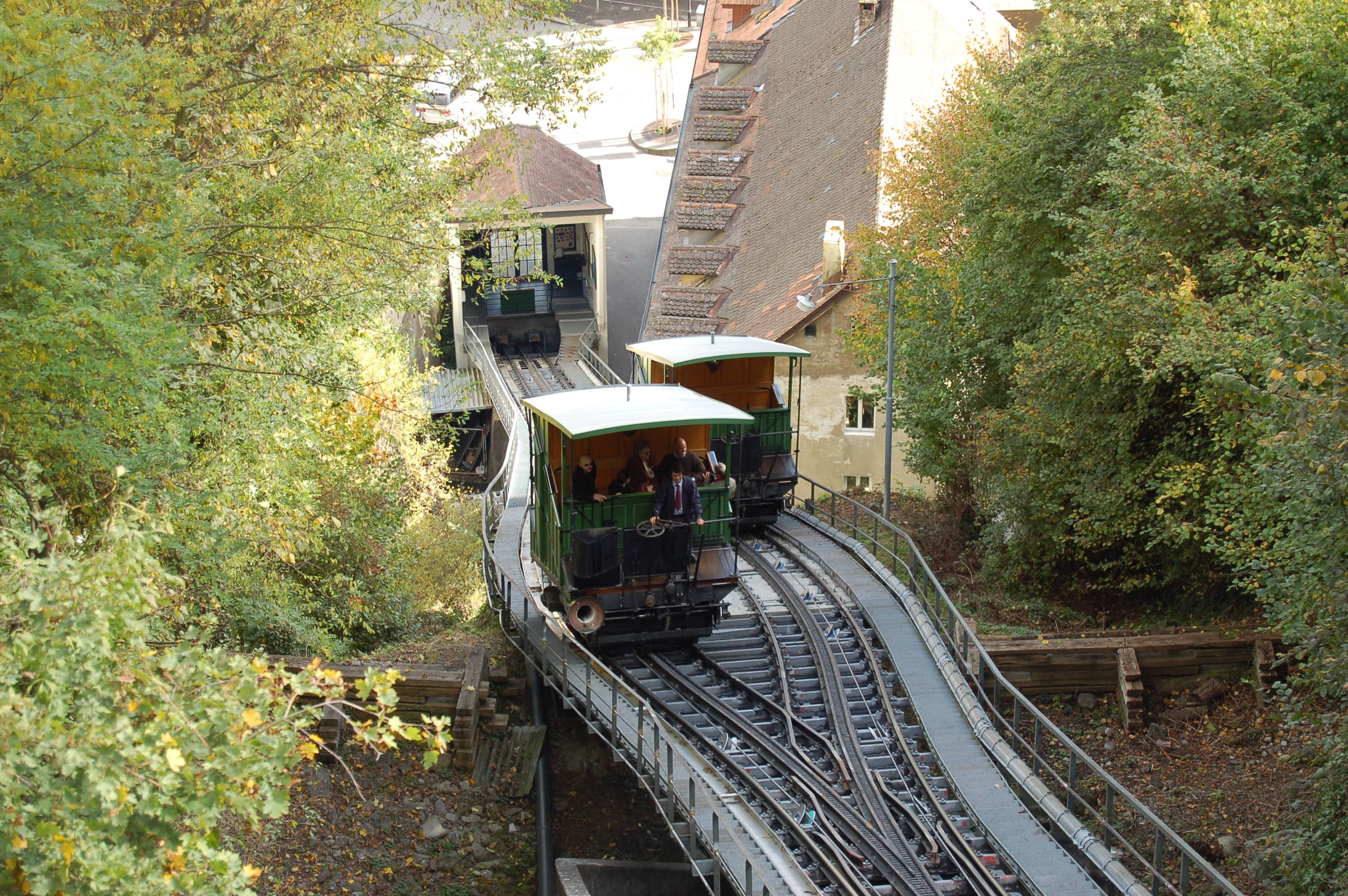 Fribourg, Switzerland